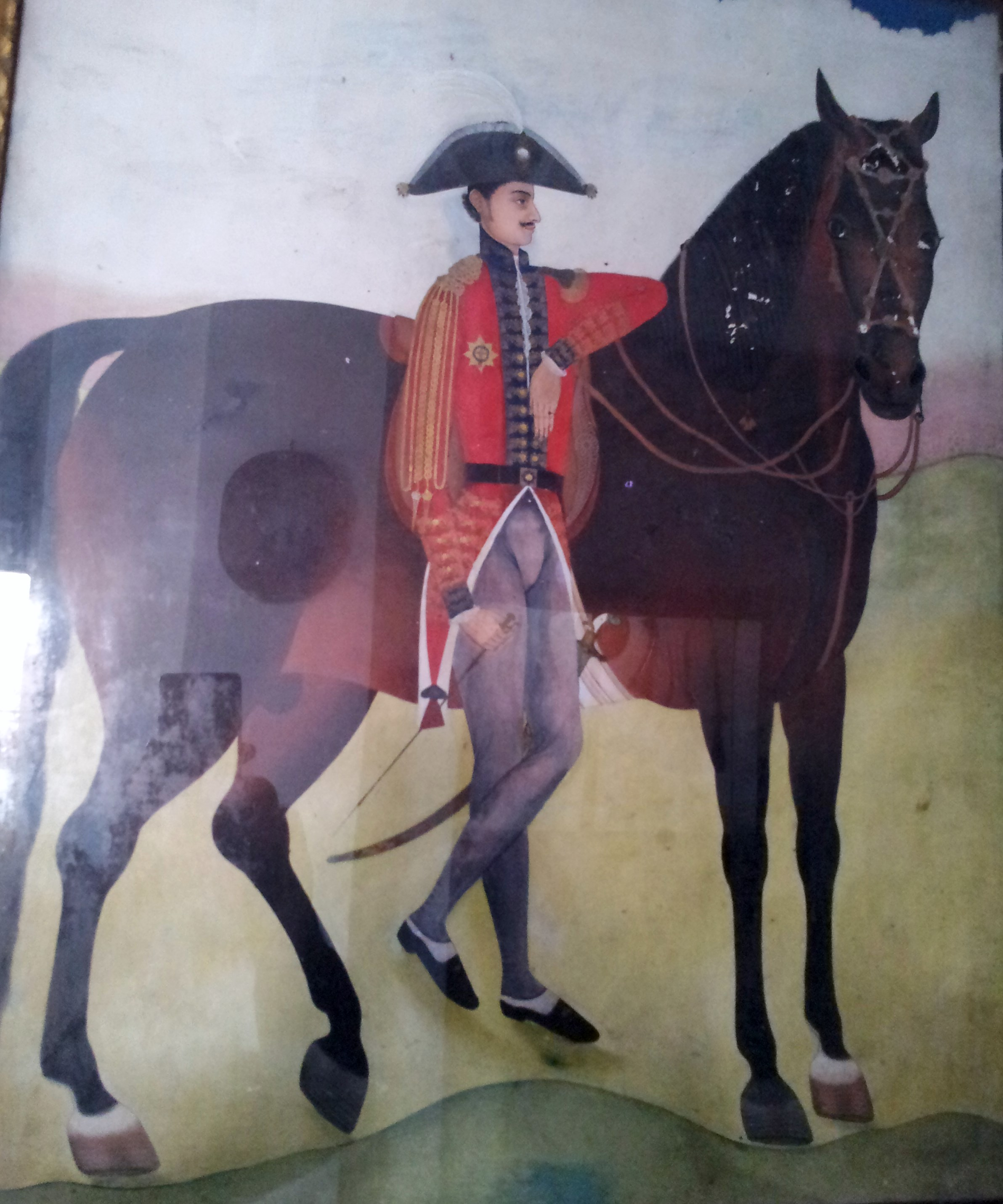 Picture of Bhimsen Thapa standing beside a horse (National Museum of Nepal, Chauni)